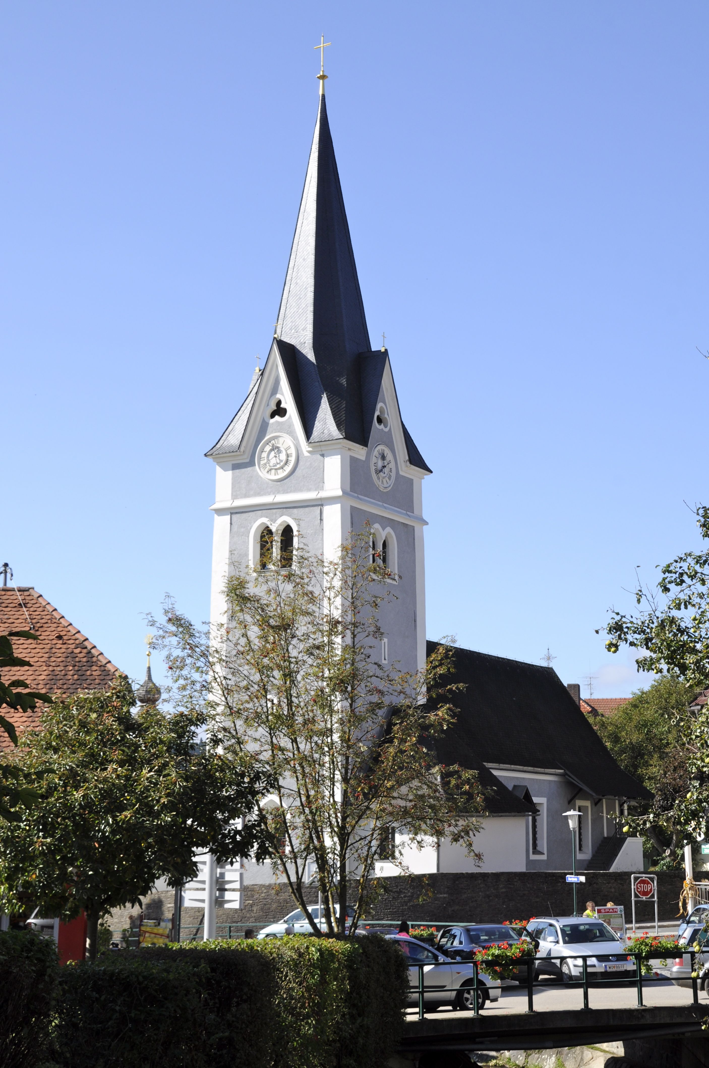 Parish church Saint George on the Schulstrasse #2, municipality Sankt Georgen im Lavanttal, district Wolfsberg, Carinthia / Austria / EU